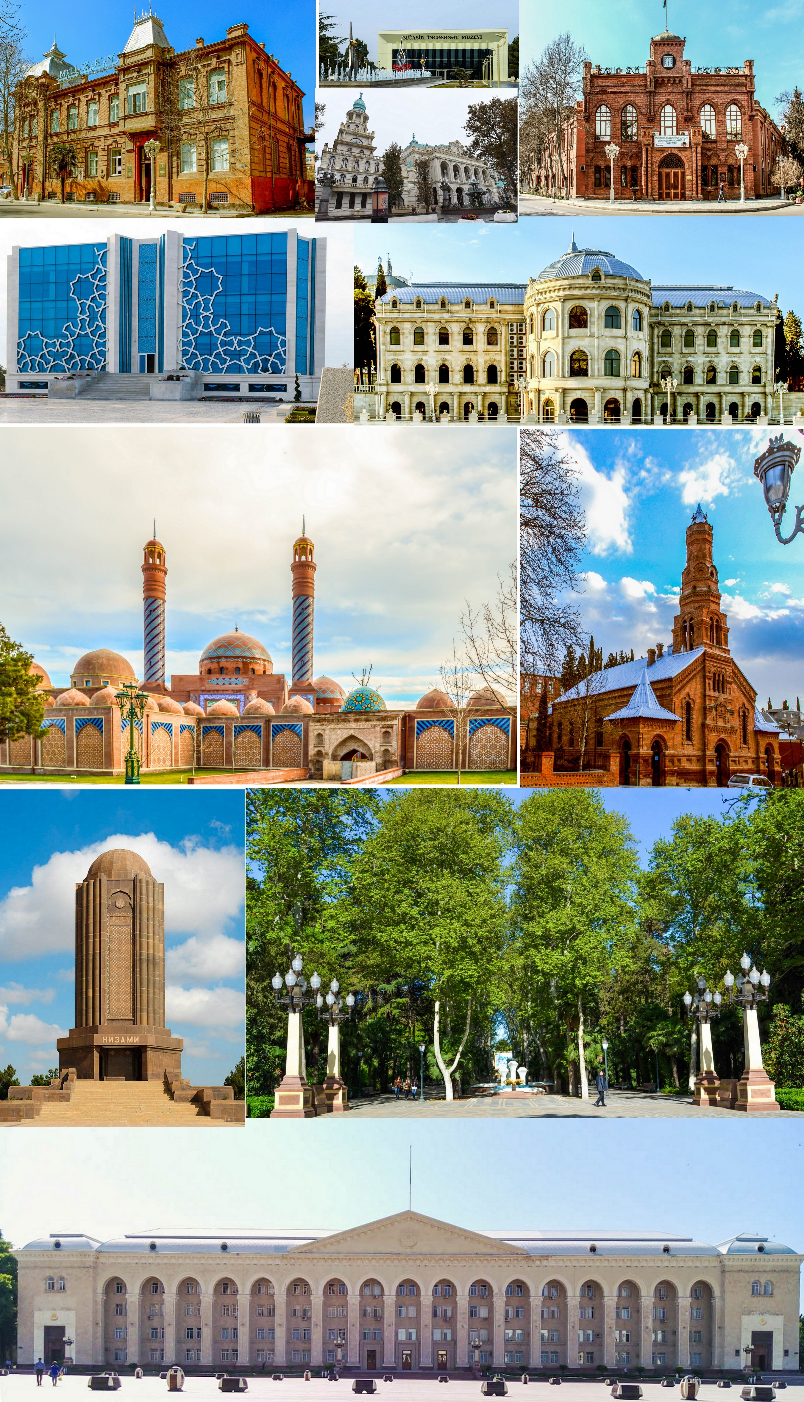 From left to right: House of Ziyadkhanovs, Ganja Museum of Modern Art, Ganja State Philharmonic Hall, Building of First Parlament of Azerbaijan, Nizami Ganjavi Museum, Mahsati Ganjavi Art Center, Ganja Imazmzadeh Mausoleum and Mosque, Church of Saviour, Nizami Mausoleum, Khan's Garden and Ganja City Hall. Montage of pictures of Ganja used for the specific article. Composition of these pictures: File:İmamzadə türbəsi (Gəncə) 2.jpg File:Ganaj-17.JPG File:Gəncə lüteran kilsəsi.jpg File:AXC parlamenti binası.jpg File:Nizami məqbərəsi - poster.jpg File:Gəncə şəhər icra hakimiyyətinin binası.jpg File:Ilham Aliyev attended the opening of the Museum of Nizami Ganjavi built in Ganja with support from the Heydar Aliyev Foundation.jpg File:Şah Abbas meydanı.jpg File:Ganja History - Ethnography Museum building.jpg File:Məhsəti Gəncəvi Mərkəzinin Gəncəçaya baxan fasadı.jpg File:Ilham Aliyev attended the opening of the Heydar Aliyev Park Complex and the Heydar Aliyev Center in Ganja 48.jpg